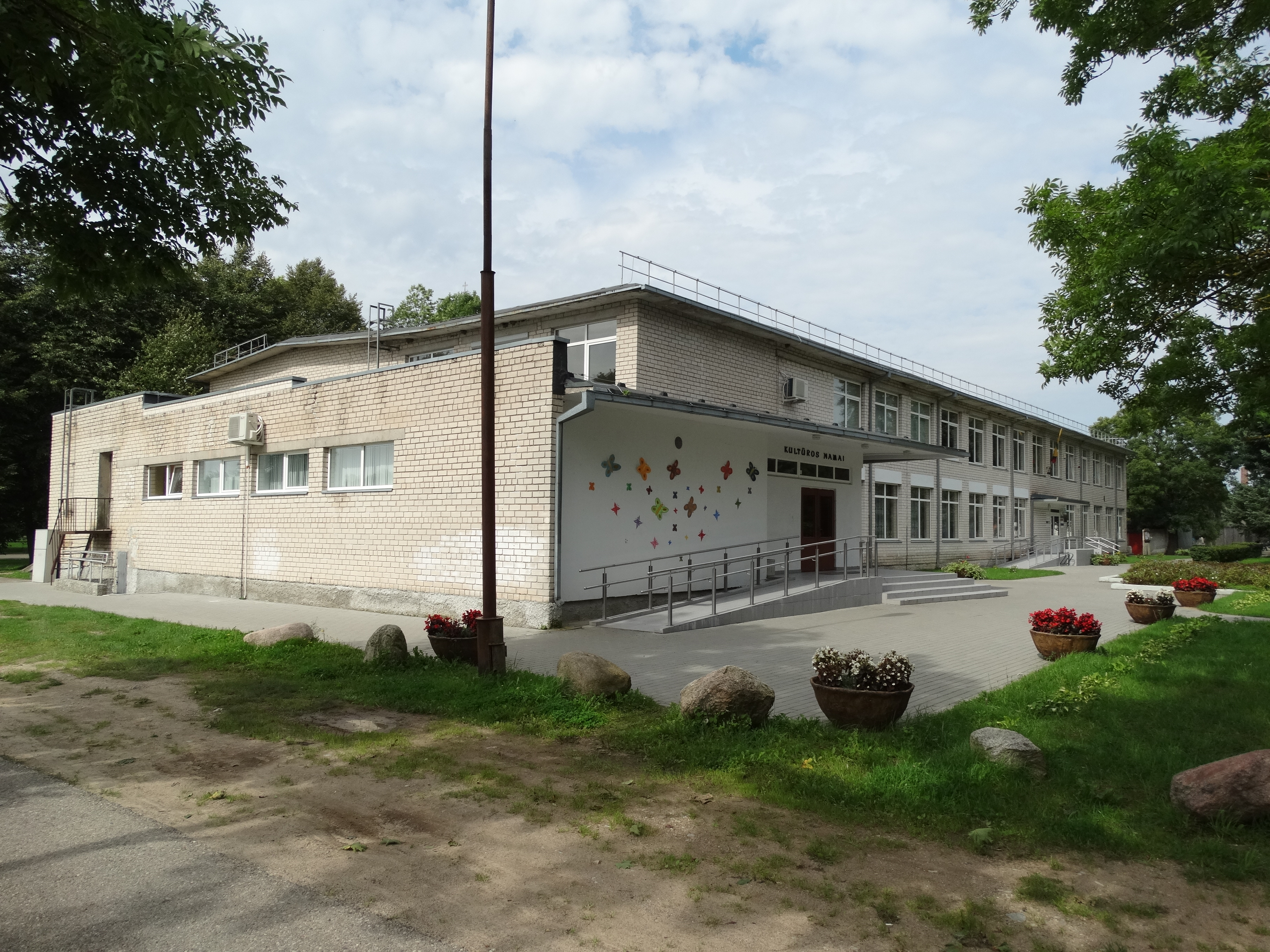 Juodaičiai, Jurbarkas district Lithuania